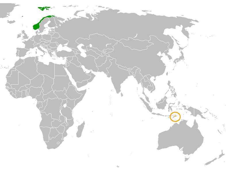 Map showing locations of both Norway and East Timor